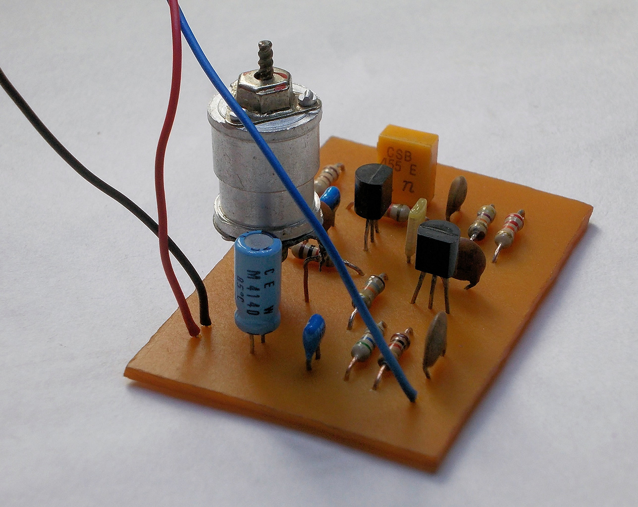 Simple BFO unit for SSB reception. Schematic, PCB design and more details are available at .